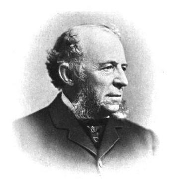 Orations & Essays of Edward John Phelps: Diplomat and Statesman. By Edward John Phelps, John Griffith McCullough. Published by Harper & Brothers, 1901